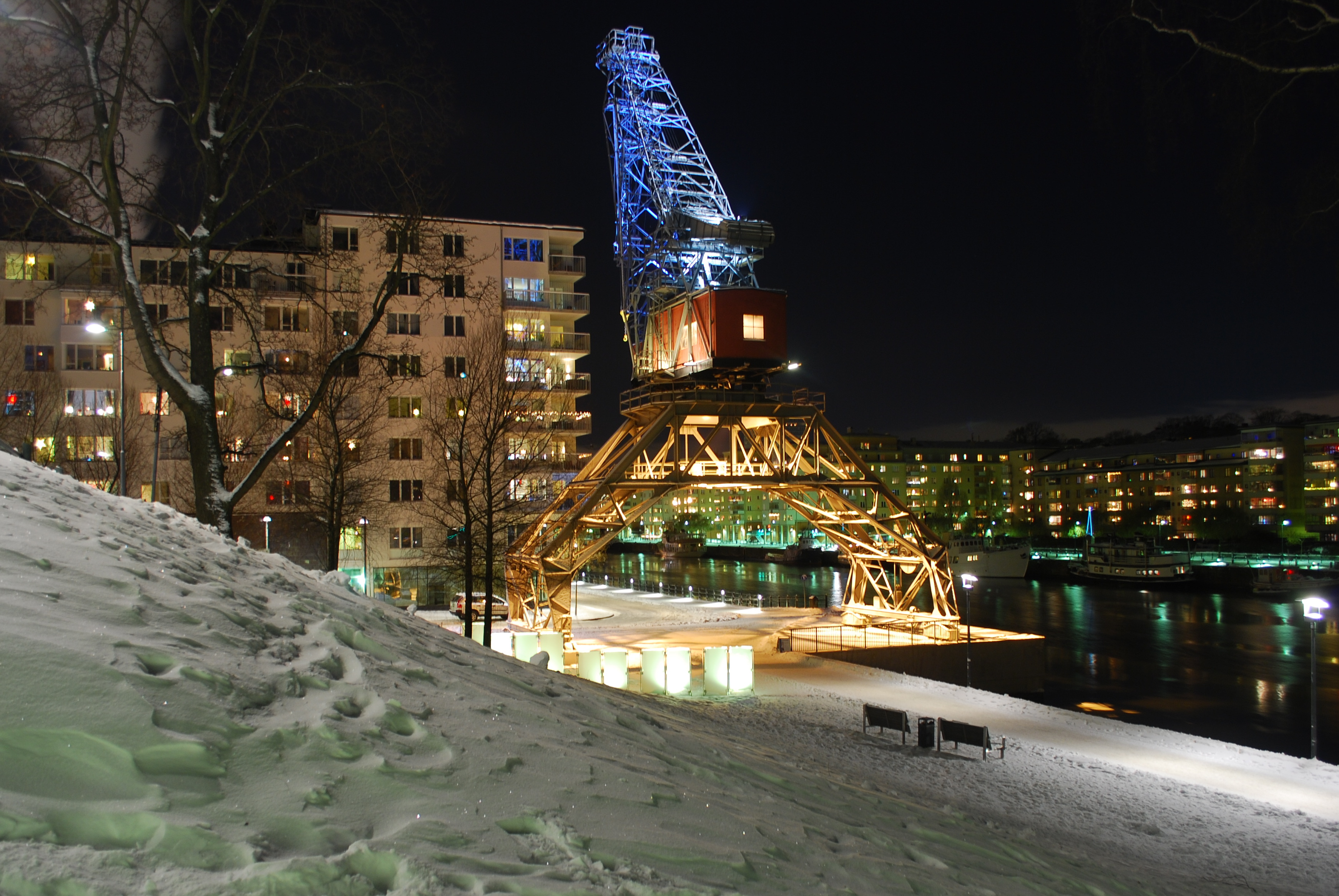 The Lumakranen is an old gantry crane in Hammarby sjöstad. Before the current redevelopment began, the area was known as Norra Hammarbyhamnen and Södra Hammarbyhamnen (roughly North and South Hammarby Port), a mainly industrial zone